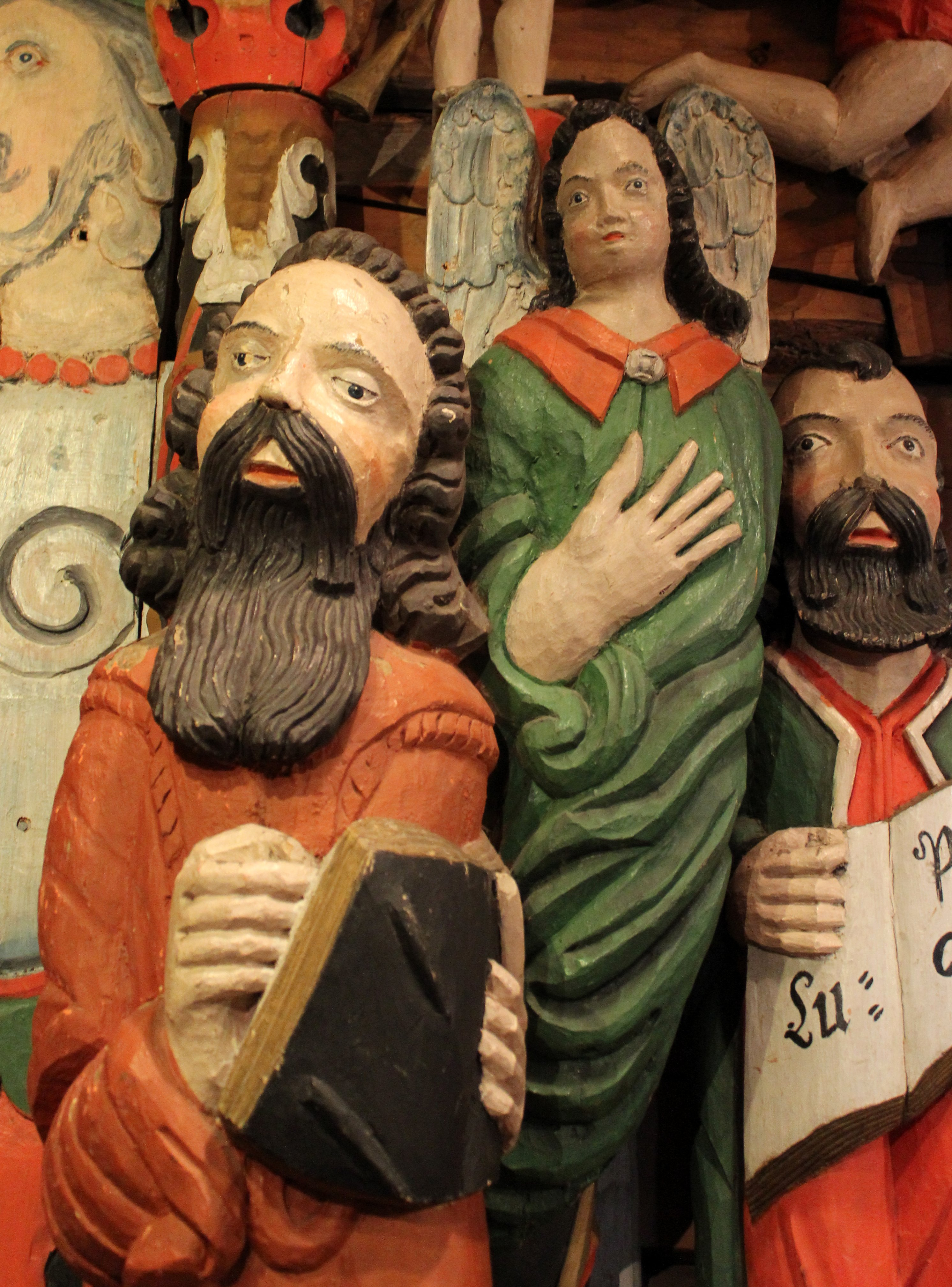 Wooden sculptures of the former Raahe Church were sculpted by Mikael Balt (died 1676) between 1669-1673. Nowadays the sculptures are located in the Raahe museum.